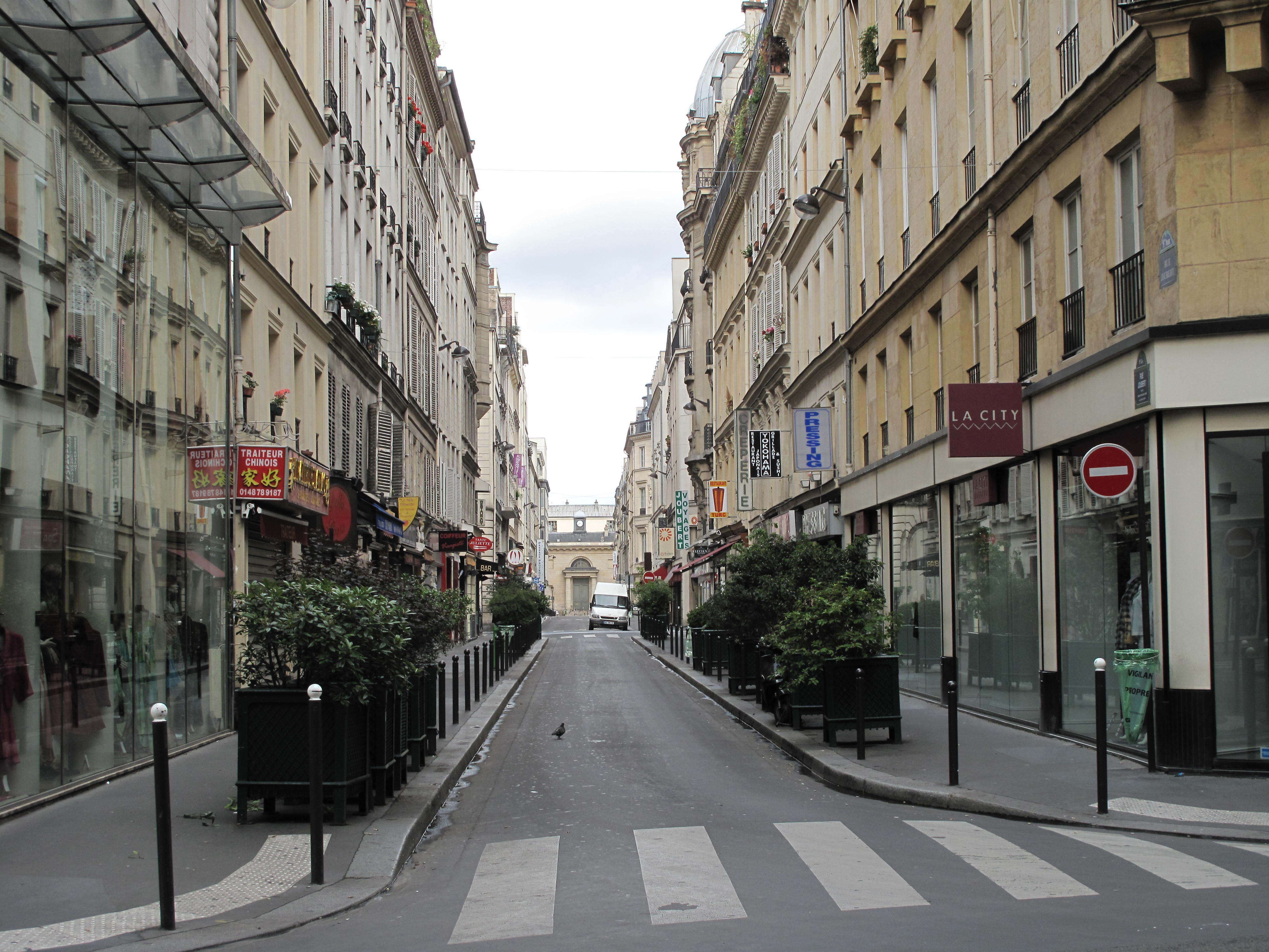 Rue Joubert, Paris. Direction west. In the background, the lycée Condorcet